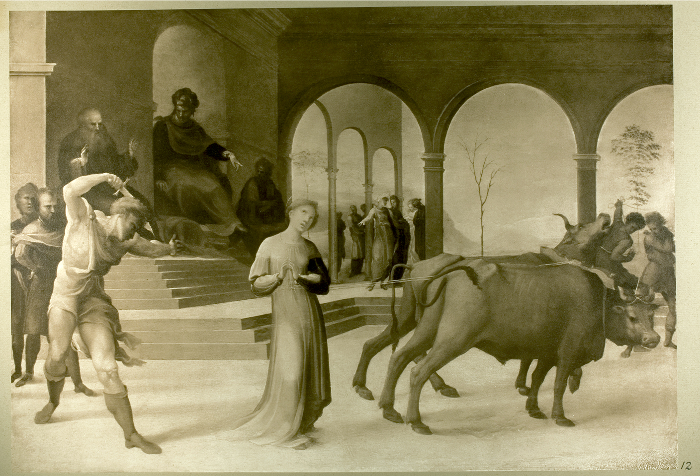 'Martyrdom of Saint Lucy', by Domenico Beccafumi, ca. 1520-1527. The painting was destroyed or disappeared in Berlin in May 1945, in the Friedrichshain flak tower fire. - Dimensions: 57.7 x 82.5 cm - Oil painting on panel